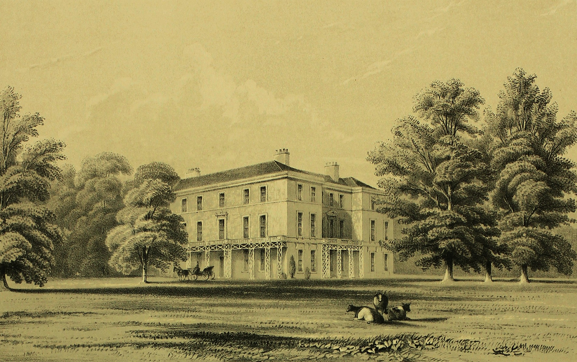 Bradwall Hall circa 1847, the seat of the Latham Family in Bradwall, near Sandbach in Cheshire. Published in "The Mansions of England and Wales: Volume 1: The county palatine of Lancaster, Northern division, the hundreds of Blackburn and Leyland." in 1847 by Edward Twycross (1803–1852)